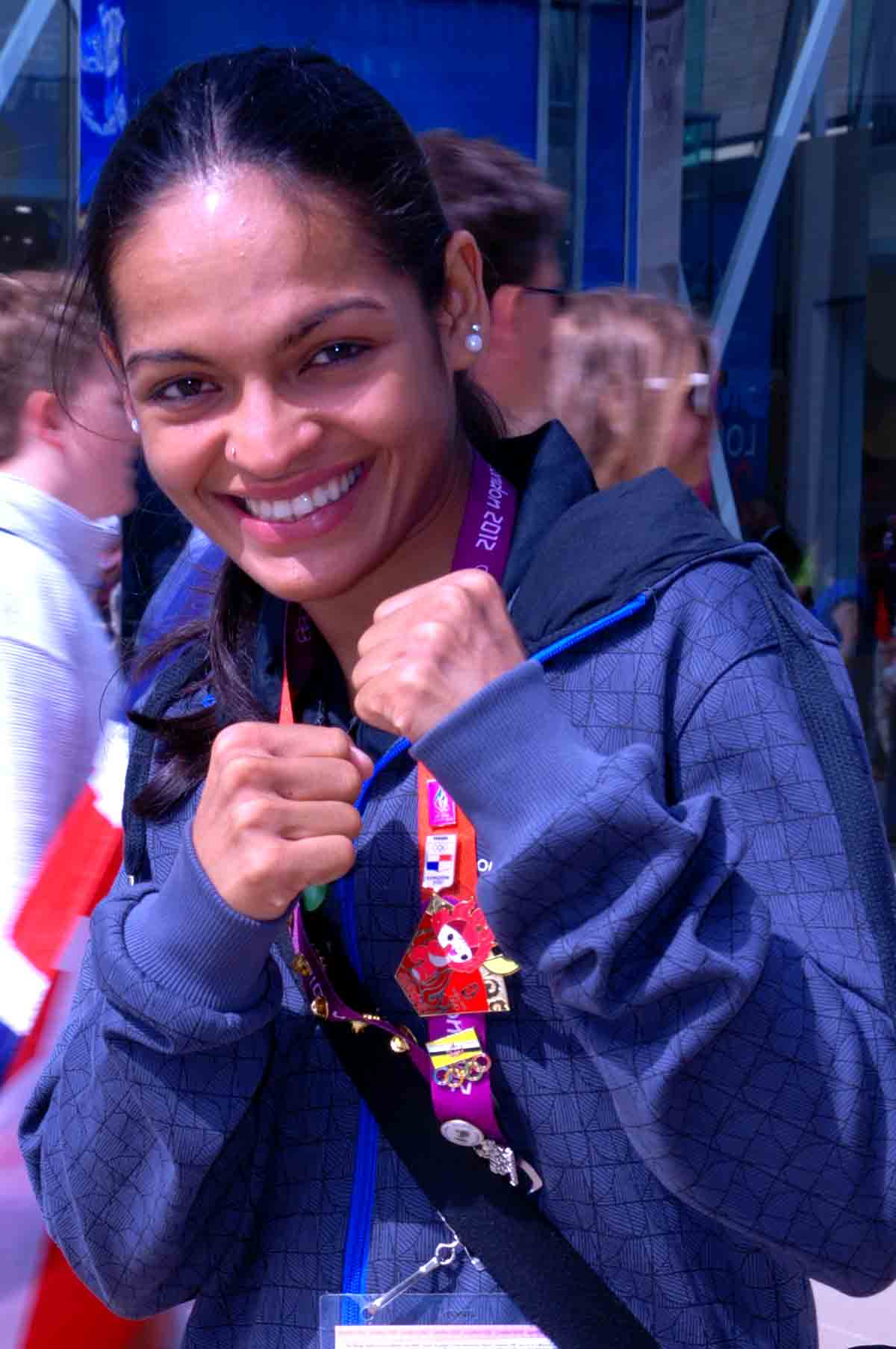 Siona Fernandes, a champion boxer of Goan origin, represented New Zealand in the London Olympics (2012), where women’s boxing made its debut in Olympics. Bulgaria’s four-time national champ Stoyka Petrova had the better of Siona Fernandes 23-11 in an Olympic women's boxing flyweight (51 Kg) last 16 bout on August 5, 2012. Siona hails from Porvorim in Goa and is an accomplished Bharatnatyam dancer. Among all Goan Olympians, Siona is the only sportsperson who was born, brought up and studied in Goa, which she loves so much and is currently there on holidays. (PIC: LUI GODINHO)